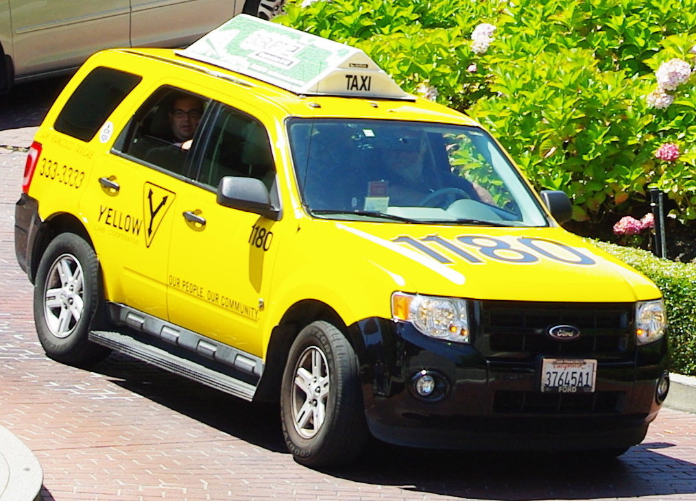 View of lombard street with a San Francisco Taxi